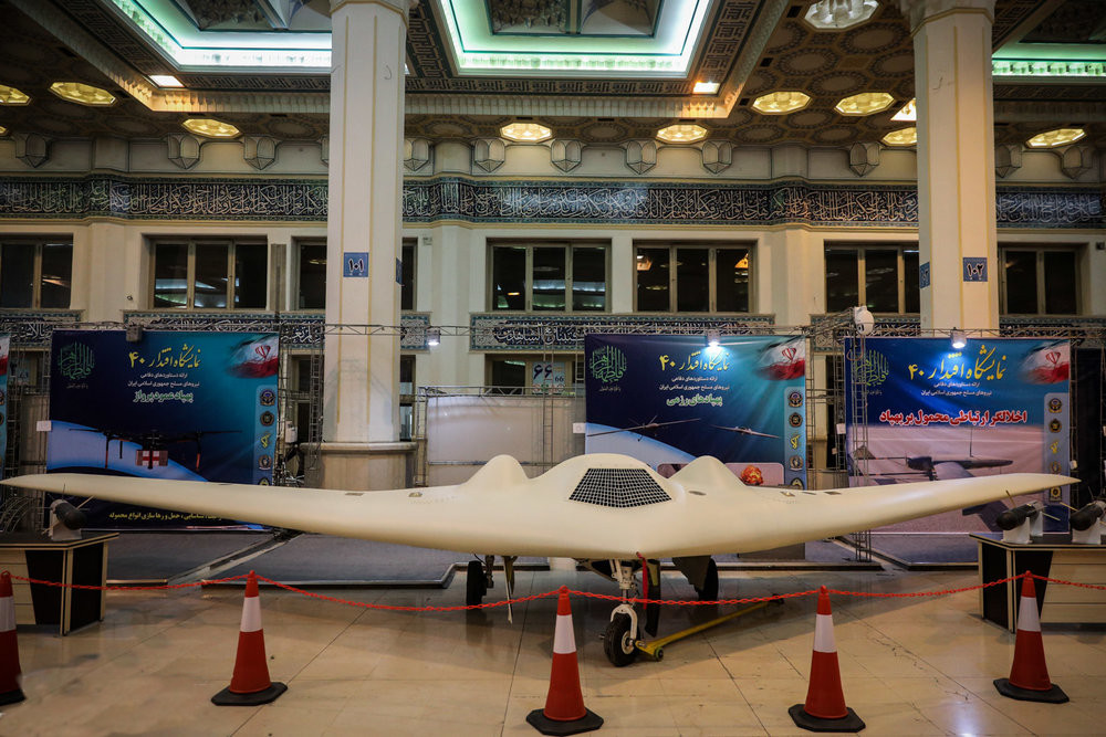 Shahed 171 drone. This picture was taken at the Eqtedar 40 defence exhibition in Tehran.